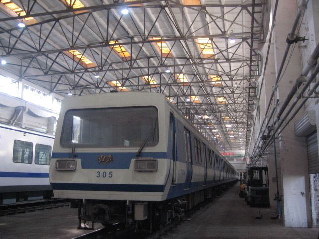 This derelict BD11 train, one of the chopping regulating voltage trains based on the DKZ4 entered service in 2000, but was wfu circa 2005.